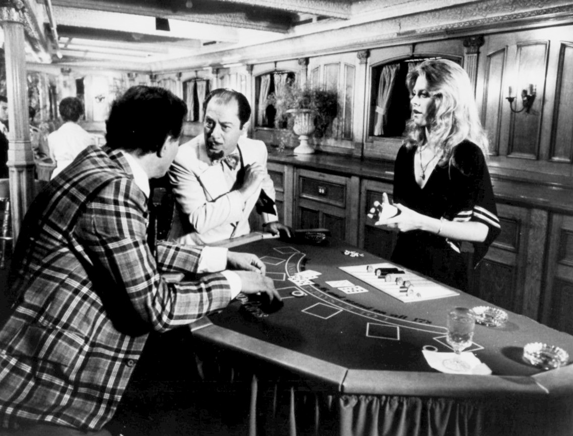 Photo of Lindsay Wagner as Jaime Sommers (and Vito Scotti, center) from the television program The Bionic Woman.